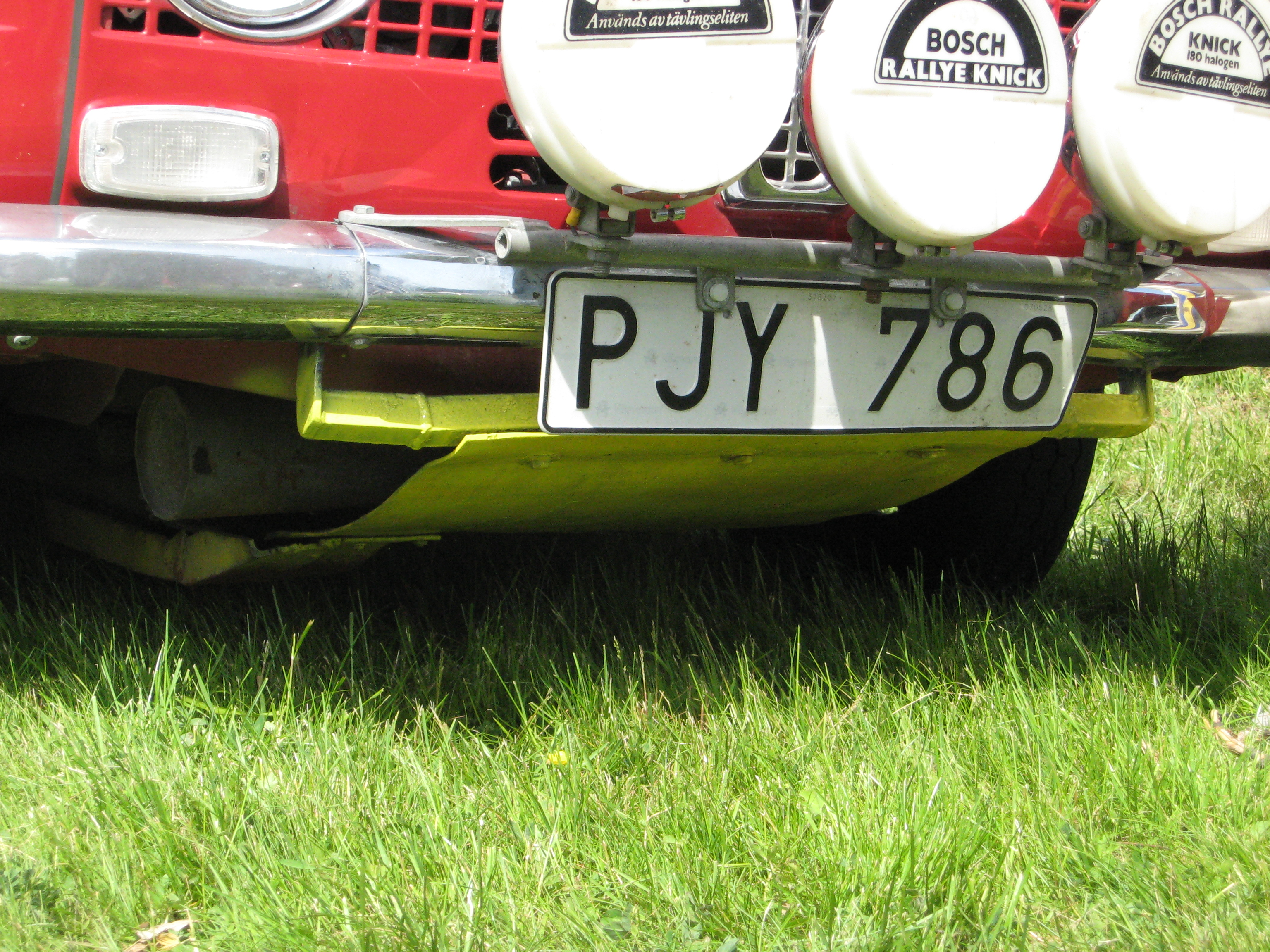 Skid plate on a SAAB 96 at Prins Bertil Memorial 2008.